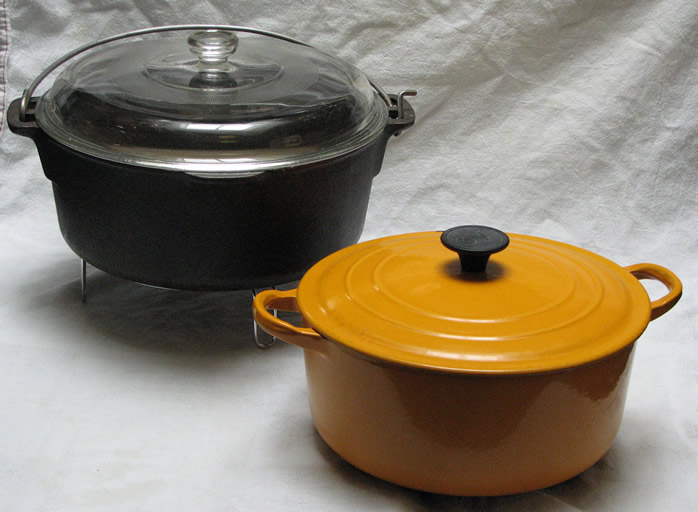 my own photo